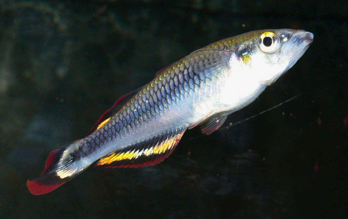 Photo of Bedotia geayi (Madagascar rainbowfish) at the Steinhart Aquarium in San Francisco